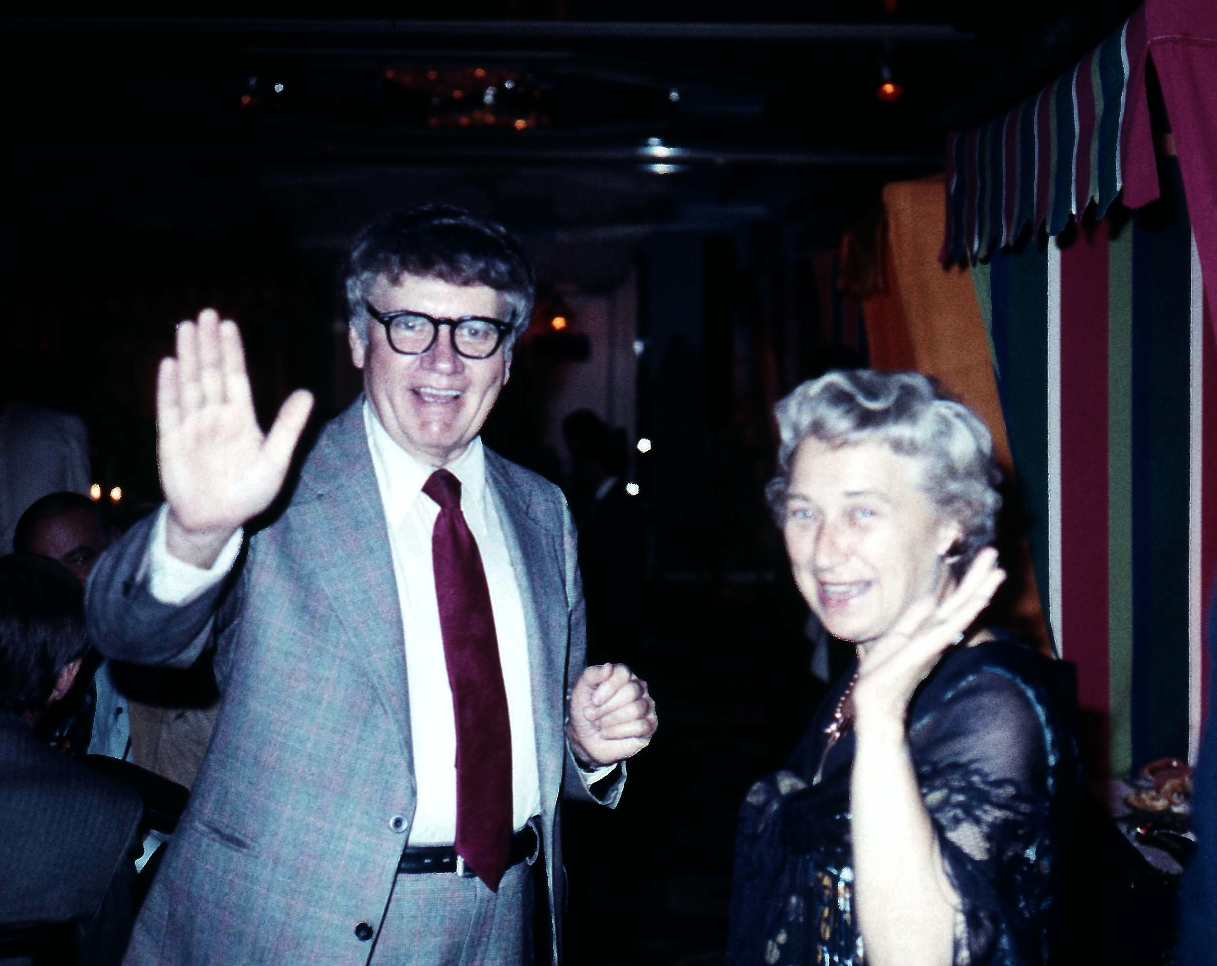 John H.Disher, NASA Director of Advanced Projects with his wife Lillian in September 1979. Photo taken at the closing banquet of the annual congress of the International Astronautical Federation (IAF) in Munich in hotel "Vier Jahreszeiten" (Four Seasons).